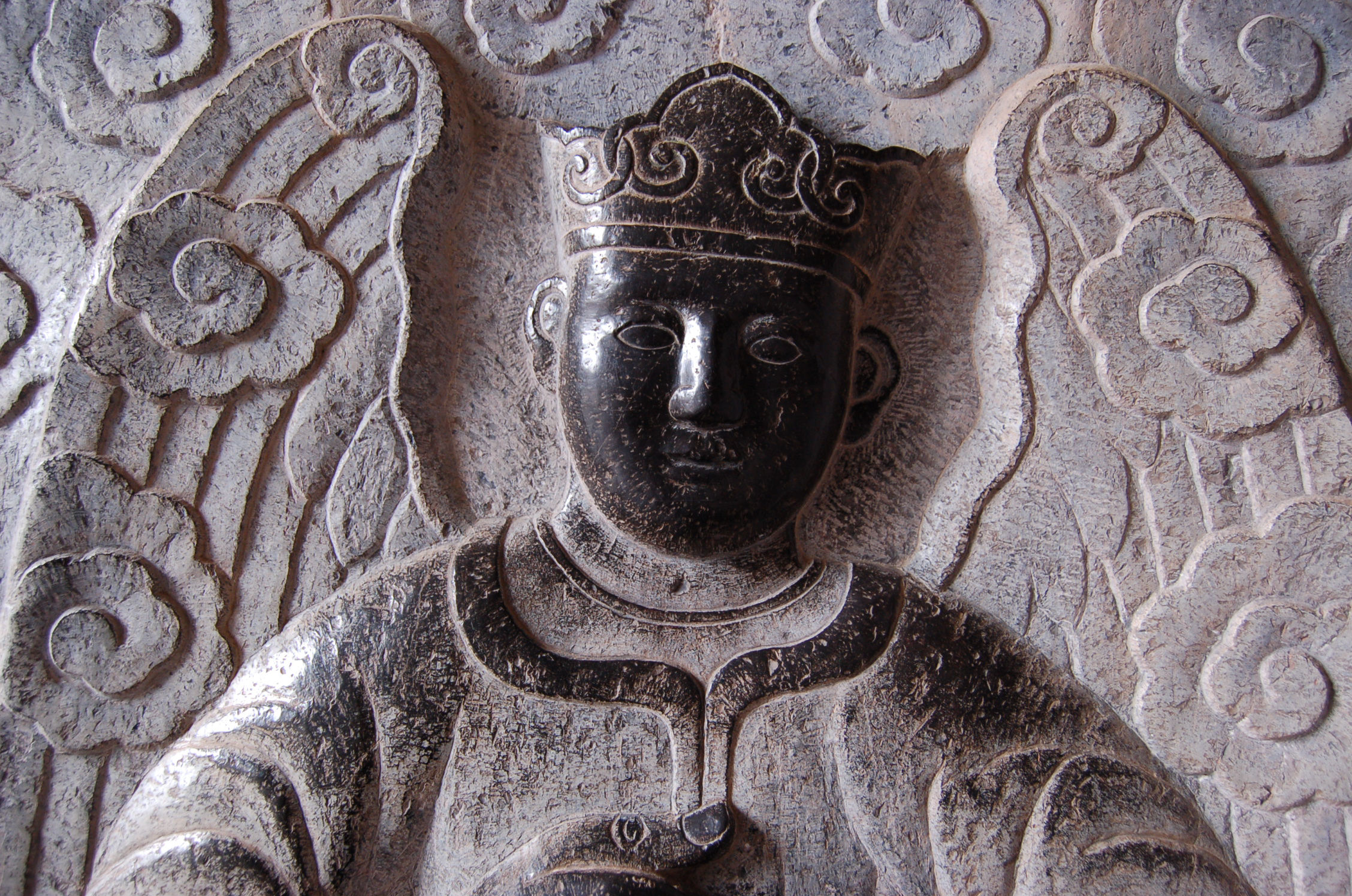 A 19th century stone angel in Phat Diem cathedral - ISO code VN-B-NB